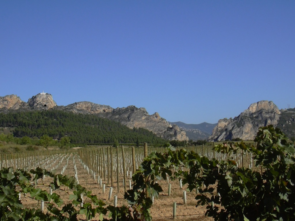 Las Conchas de Haro site (La Rioja, Spain), with San Felices hermitage at the top.